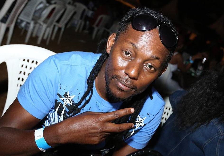 This is a photo taken of Moses Qqu Odhiambo at a Dance Event